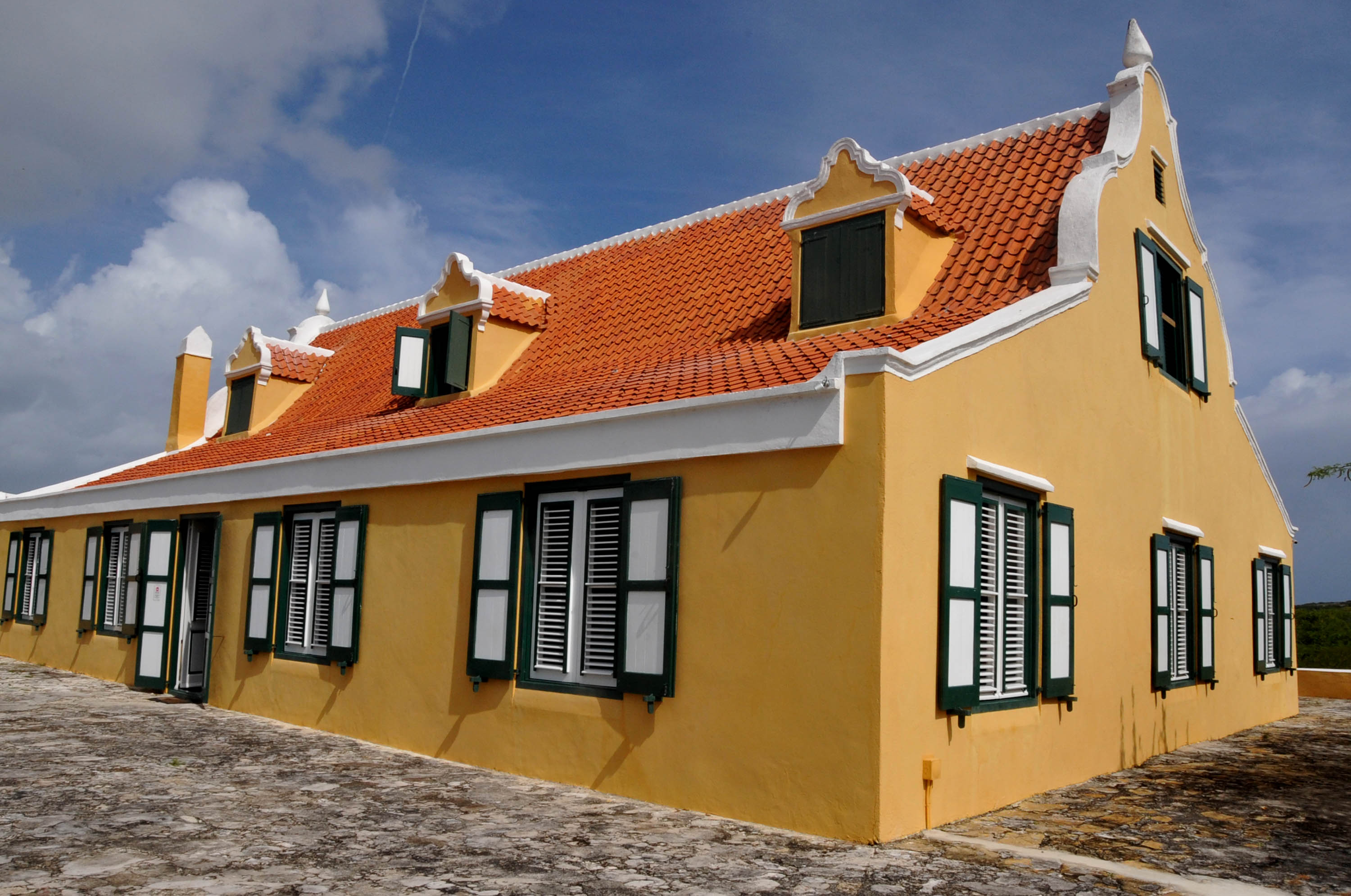 THIS IS THE MAIN HOUSE OF SAVONET WHICH IS ONE OF THE OLDEST PLANTATION HOUSES ON THE ISLAND AND IS INCLUDED IN CHRISTOFFEL PARK WHICH IS A NATURE PARK